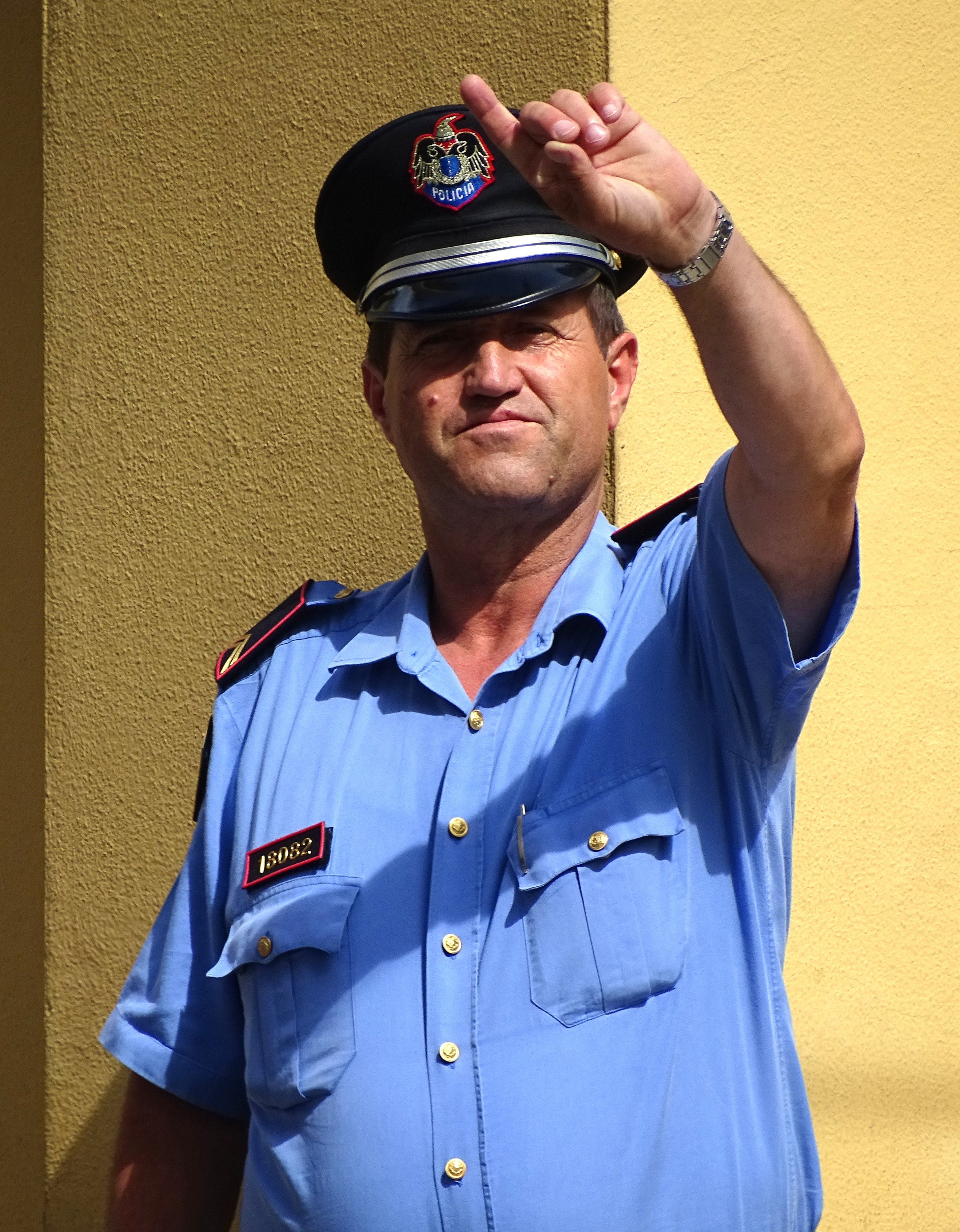 Photos by Adam Jones